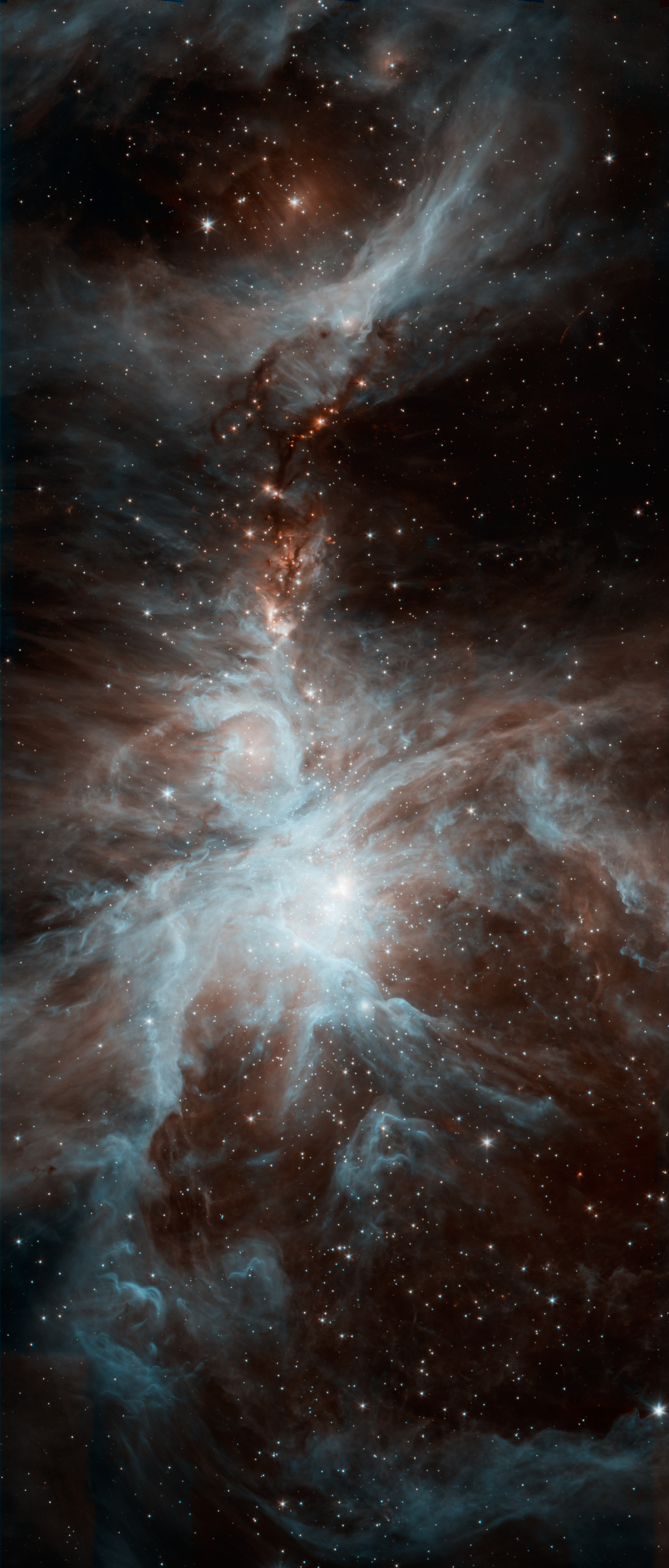 A colony of hot, young stars is stirring up the cosmic scene in this new picture from NASA's Spitzer Space Telescope. The image shows the Orion nebula, a happening place where stars are born. The young stars dip and peak in brightness due to a variety of reasons. Shifting cold and hot spots on the stars' surfaces cause brightness levels to change, in addition to surrounding disks of lumpy planet-forming material, which can obstruct starlight. Spitzer is keeping tabs on the young stars, providing data on their changing ways. The hottest stars in the region, called the Trapezium cluster, are bright spots at centre right. Radiation and winds from those stars has sculpted and blown away surrounding dust. The densest parts of the cloud appear dark at centre left.